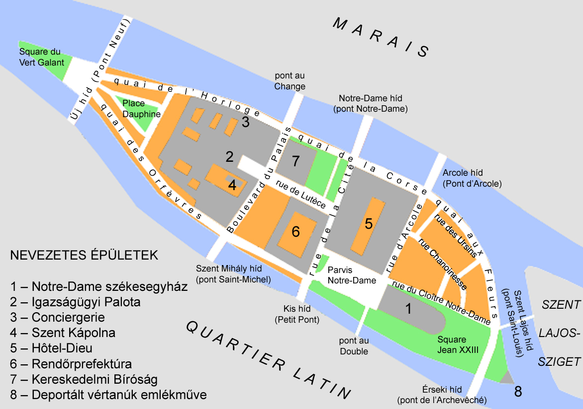 Schematic map of the Île de la Cité, with legend and description in Hungarian